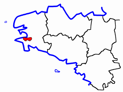 Description: Map for localisazion of cantons of Bretagne region in France Source: made by Hervé Tigier in april 2005 from another large map (published in 1990)